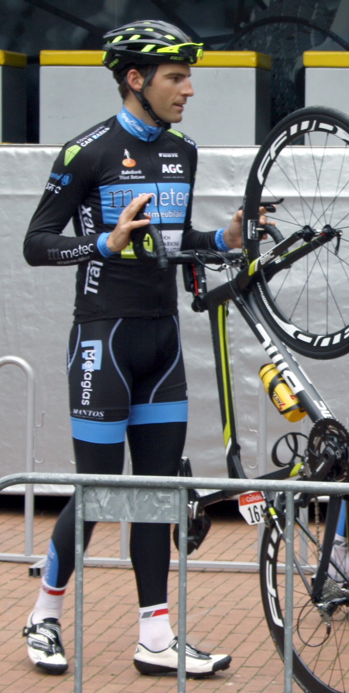 Peter Koning at the start of the World Ports Classic 2014 in Rotterdam